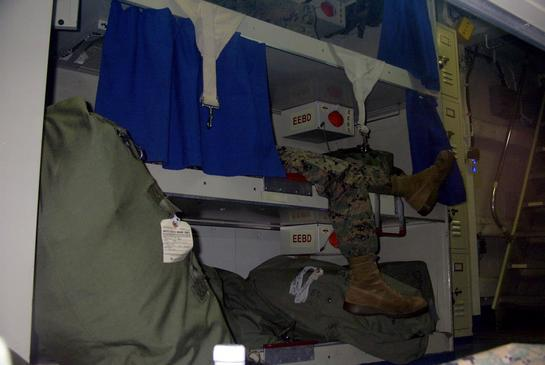 Enlisted berthing area occupied by a US Marine on board the USS Juneau (LPD-10)